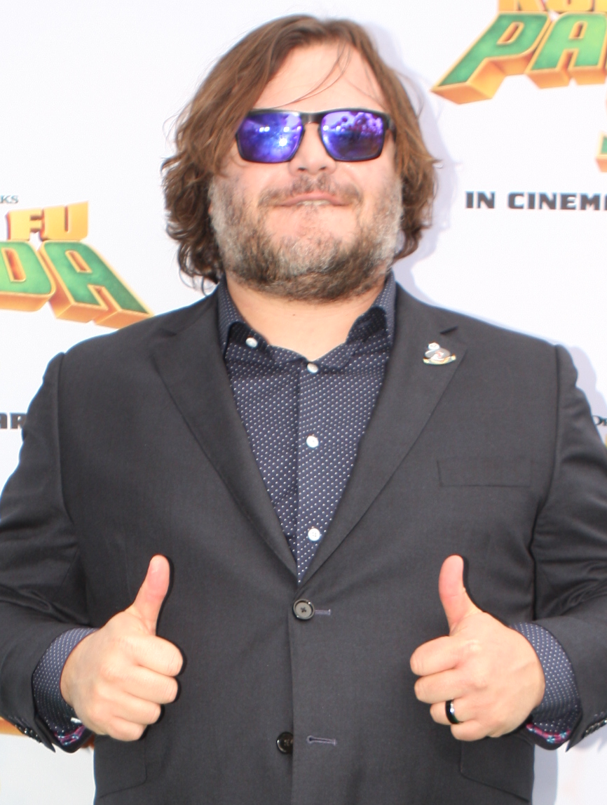 Jack Black